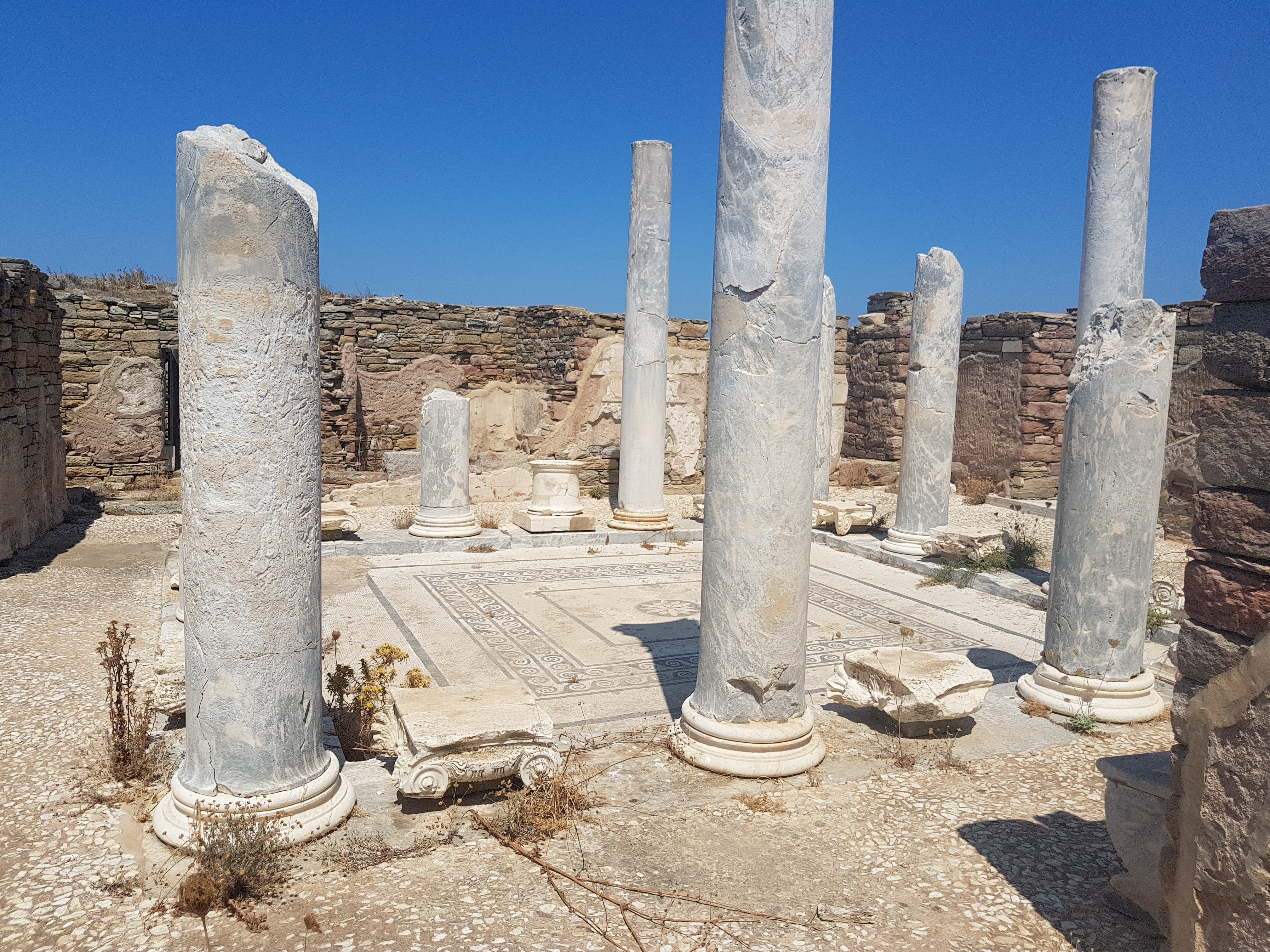 This is a photography of Natura 2000 protected area with ID GR4220027